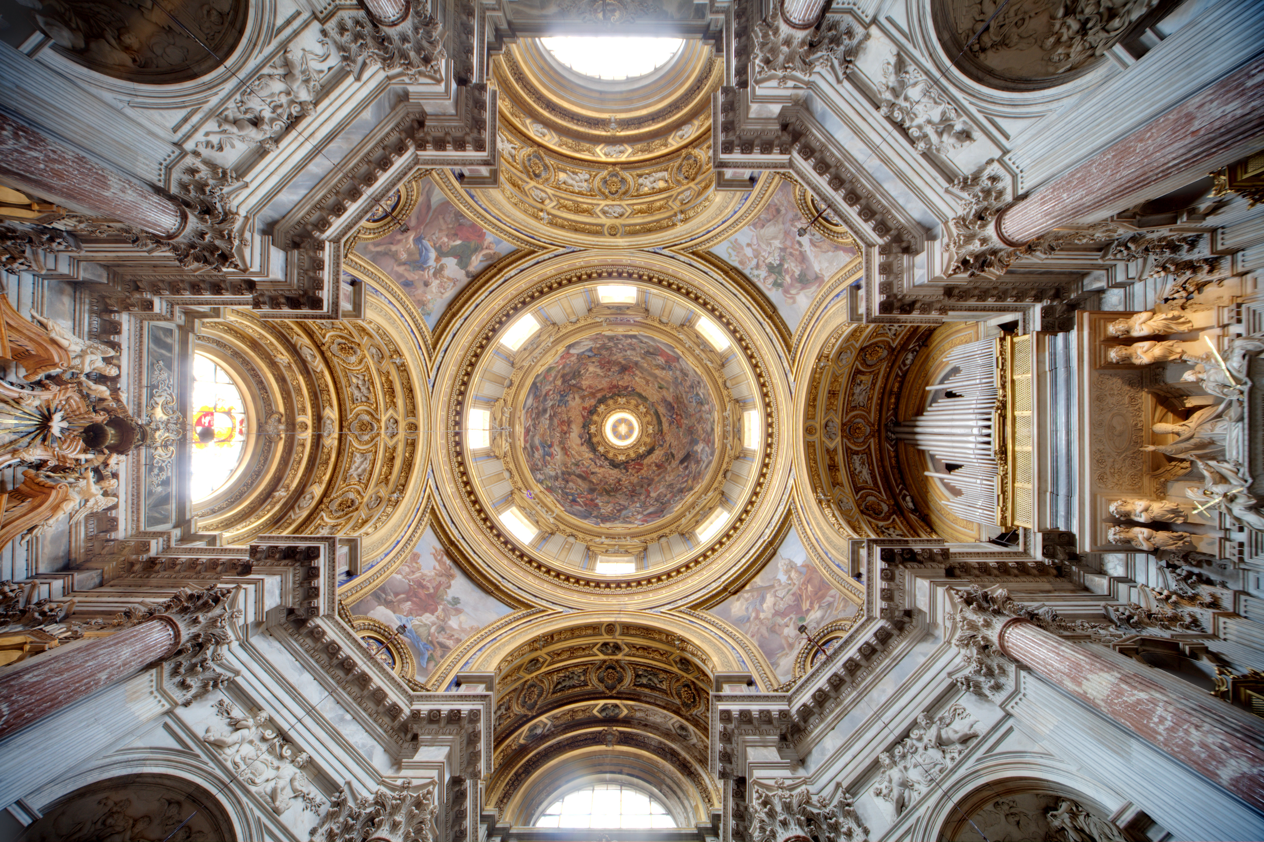 Main vault of Sant'Agnese in Agone DRI from 3 images